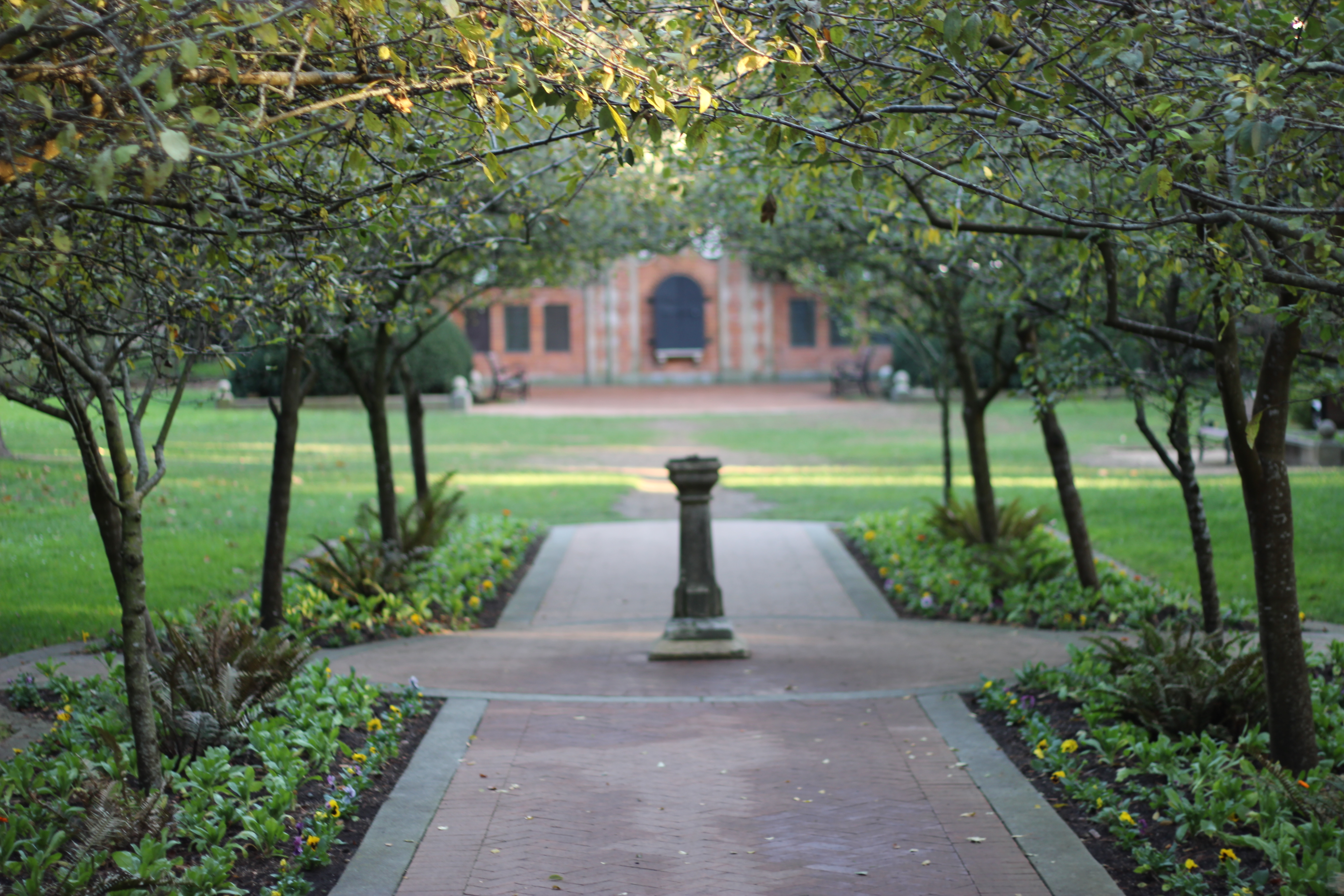 in shakespeare garden